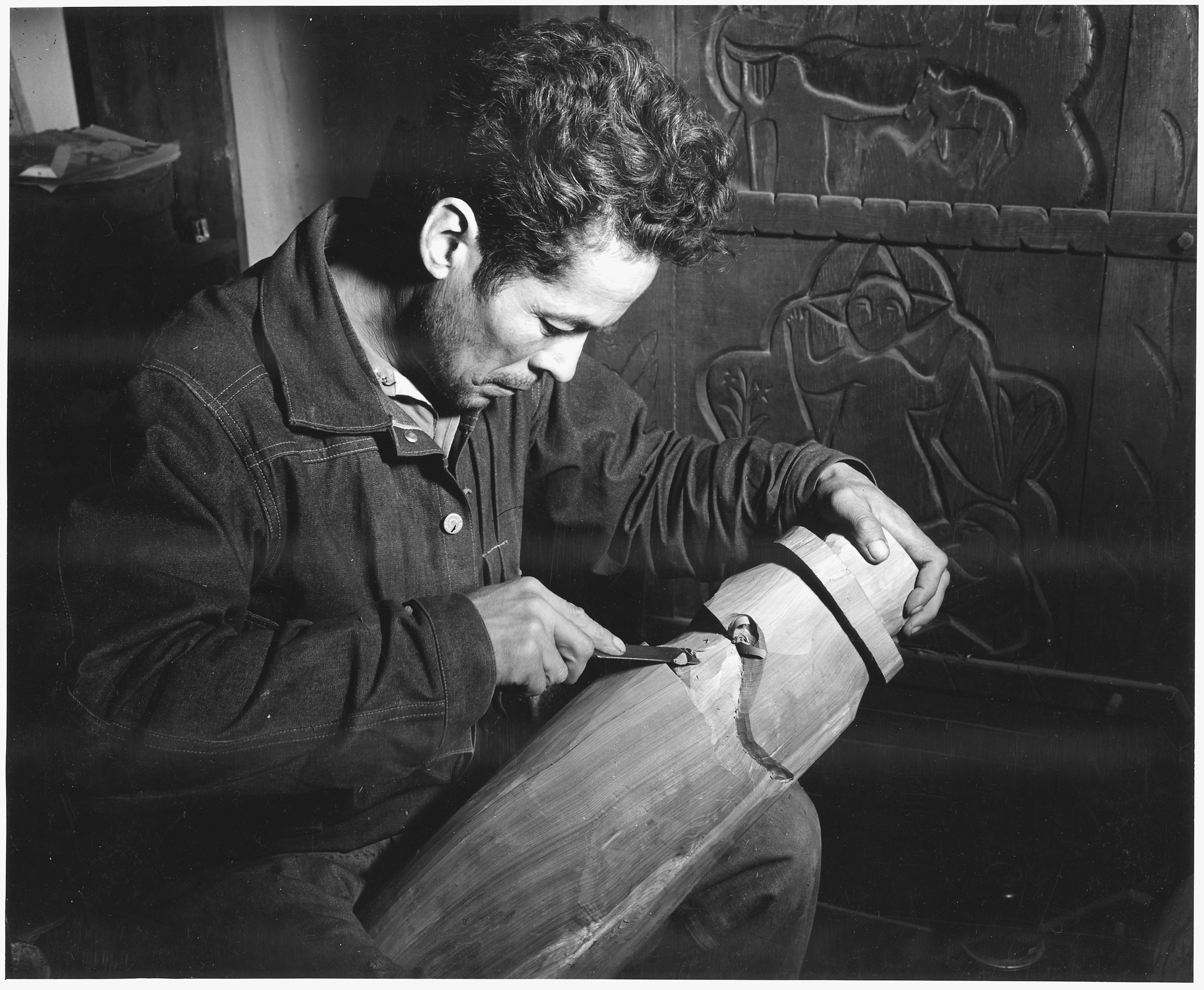 Scope and content: Full caption reads as follows: Taos County, New Mexico. Native woodcarver Patrocina Barela has exhibited at the New York World's Fair and has been written up in Time Magazine.